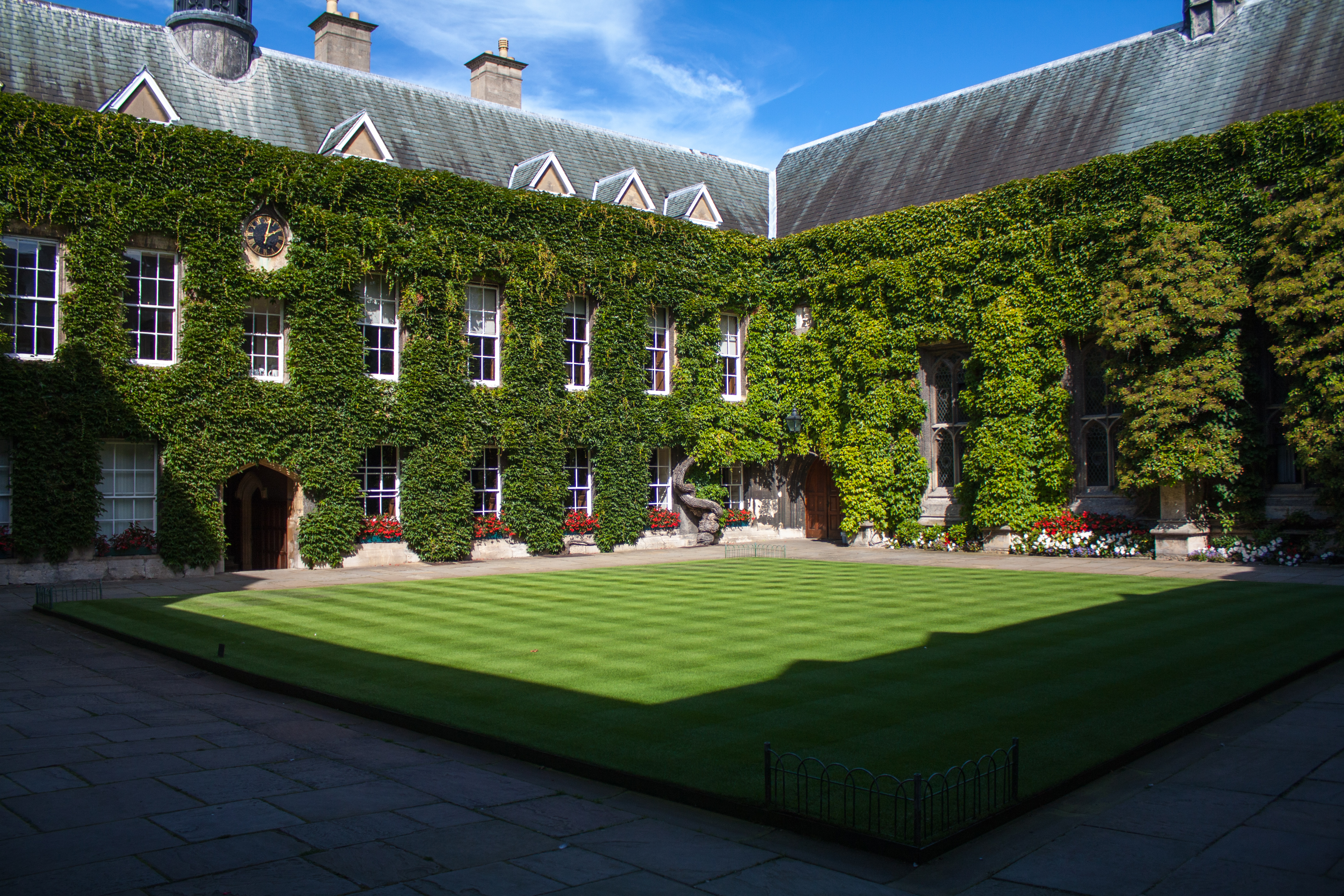 The quadrangle at Lincoln College, Oxford